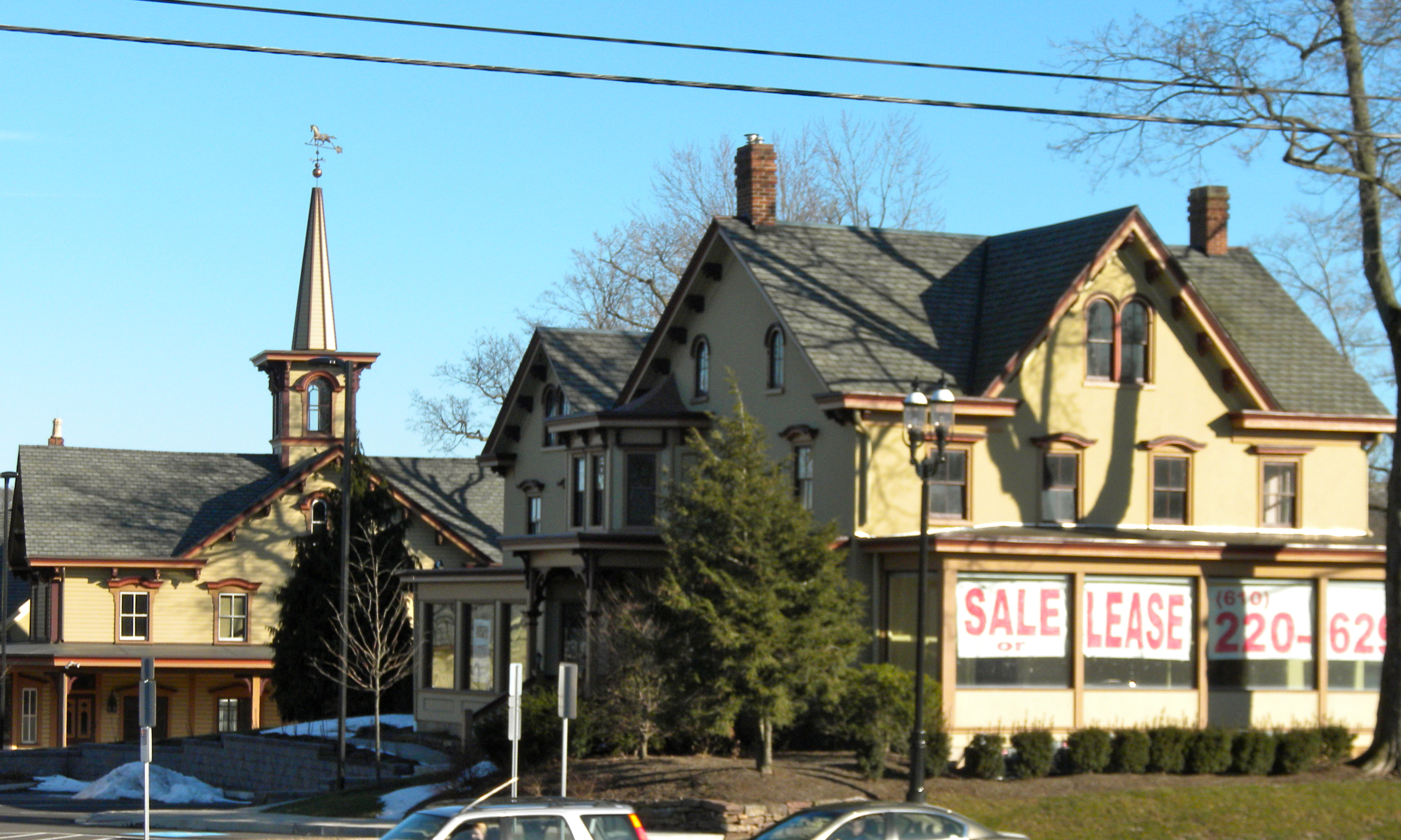 Fretz Farm in Bucks County, Pennsylvania. On NRHP since March 7, 1985. At Almshouse Road and Pennsylvania Route 611, across the street from the old Bucks County Almshouse (or the newer Children's (?) Correctional Facility). In Doylestown Township. From the look of things, it's been made part of a Shopping Mall, and has a hard time being rented. The old stone barn - which I should have photographed! - is an interesting "adaptive re-use. One -third = end of old stone barn, middle third = super glass store front, last third = end of an old stone barn, with the roof of an old stone barn covering it all. E for effort, at least, but it probably doesn't work either for shoppers or history buffs.